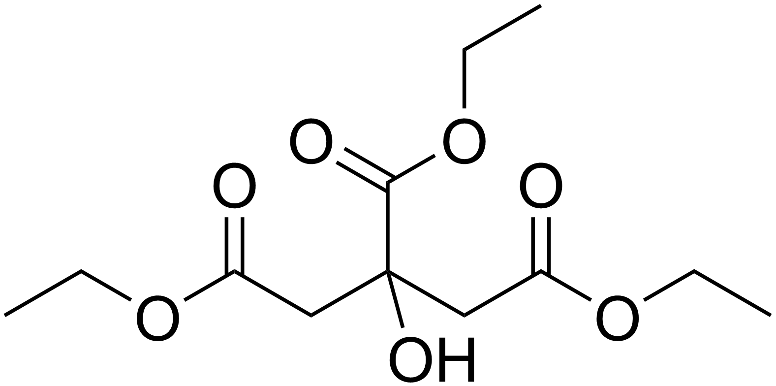 chemical structure of triethyl citrate (E1505)